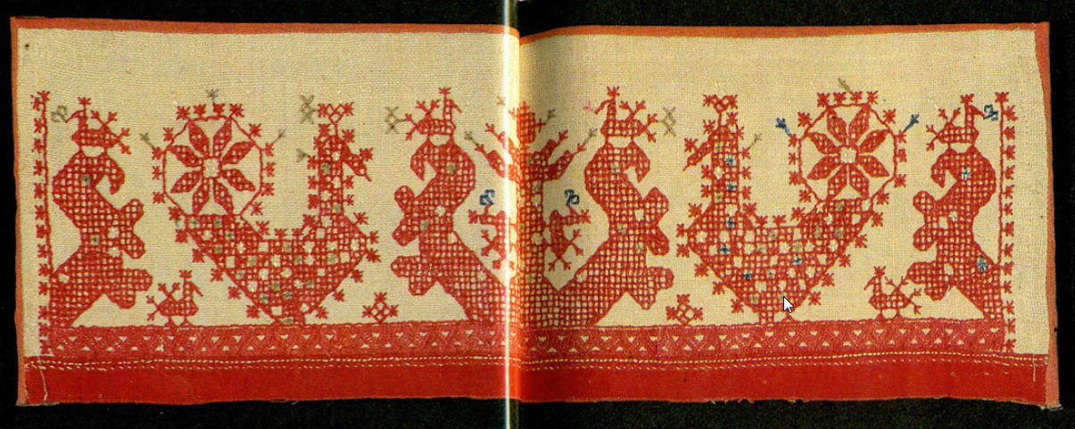 Embroidery towel edge. Onezhsky district, Arhangel province. Second half of 19 century. register number in Museum of Folk Art Moscow МХП:11883